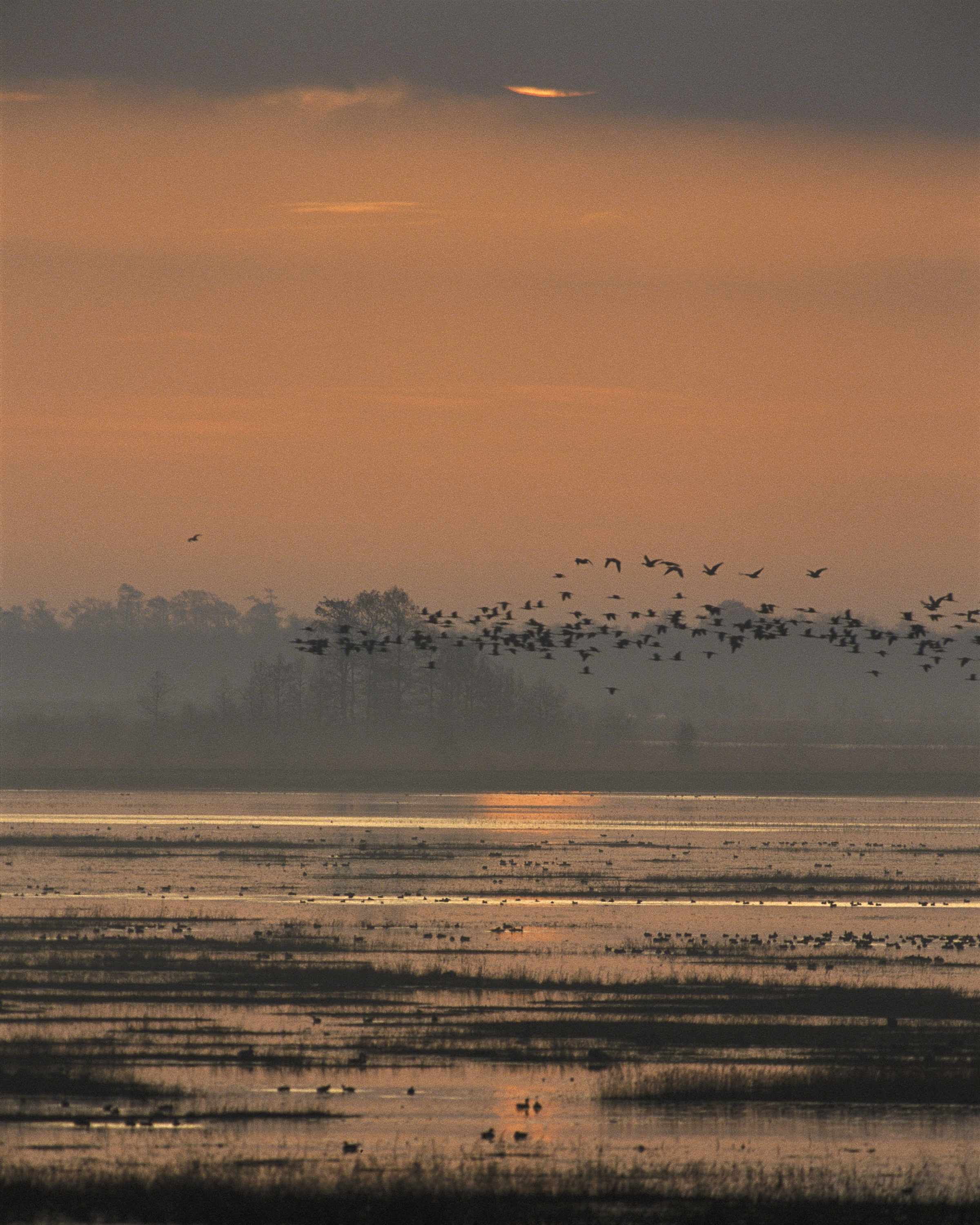 Lacassine National Wildlife Refuge, LA Photo: John and Karen Hollingsworth/USFWS